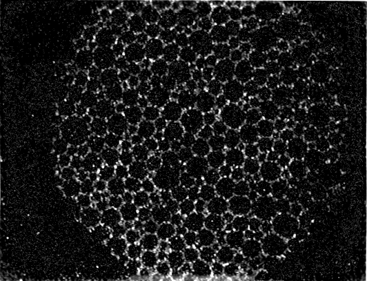 Epifluorescence microscopy of a monolayer in LE+G phase at 0 mN/m at equilibrium